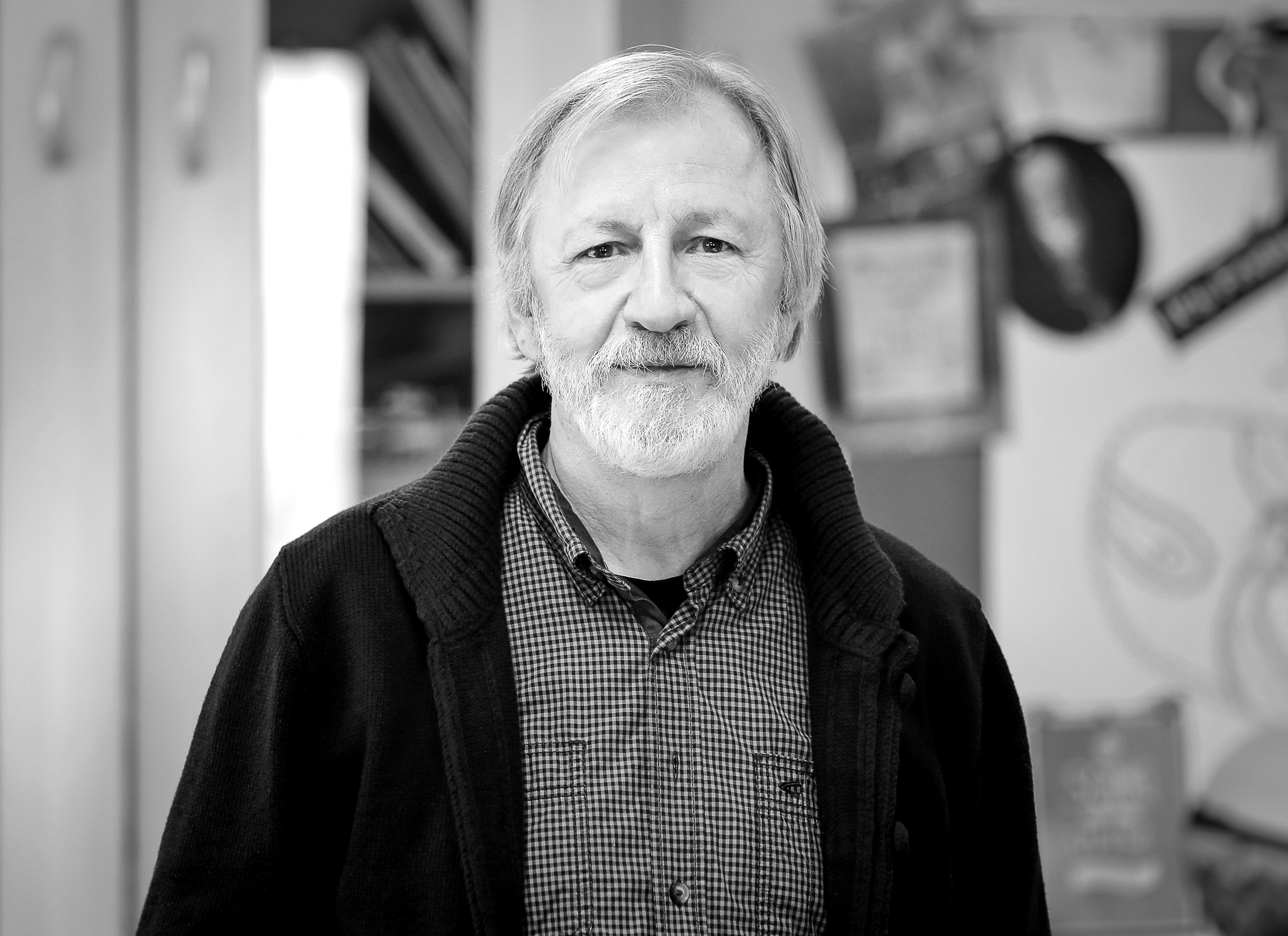 Igor Oleynikov. Russian Illustrator.